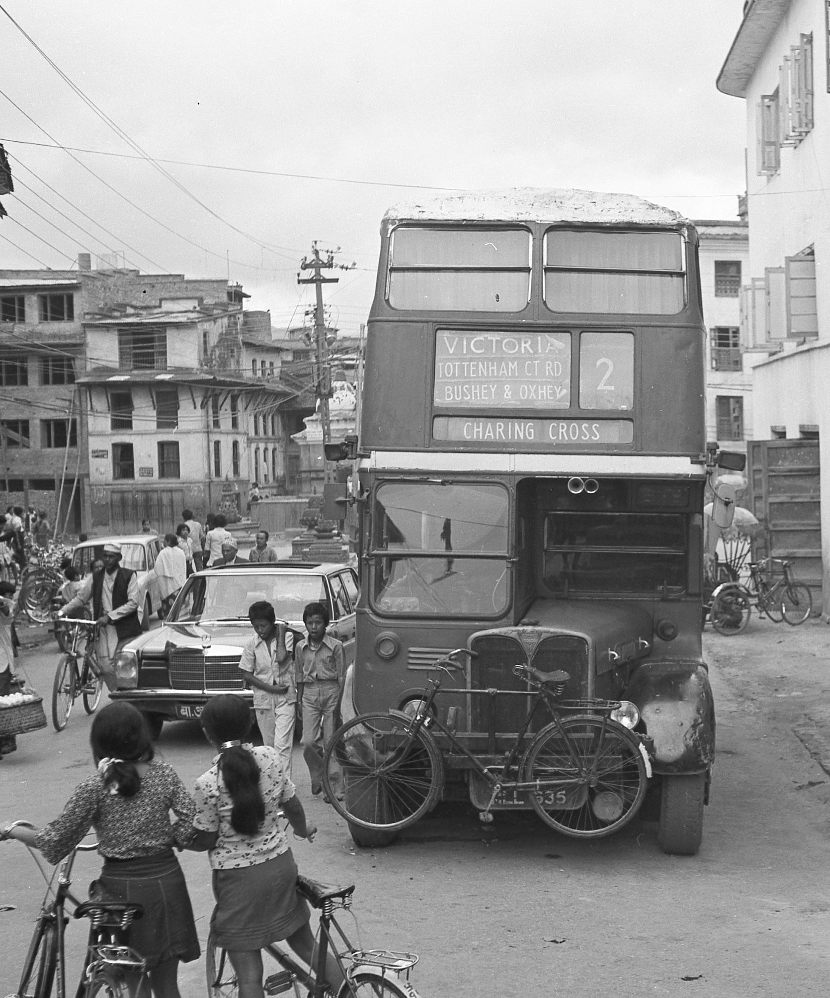 A London double-decker bus in Kathmandu, Nepal